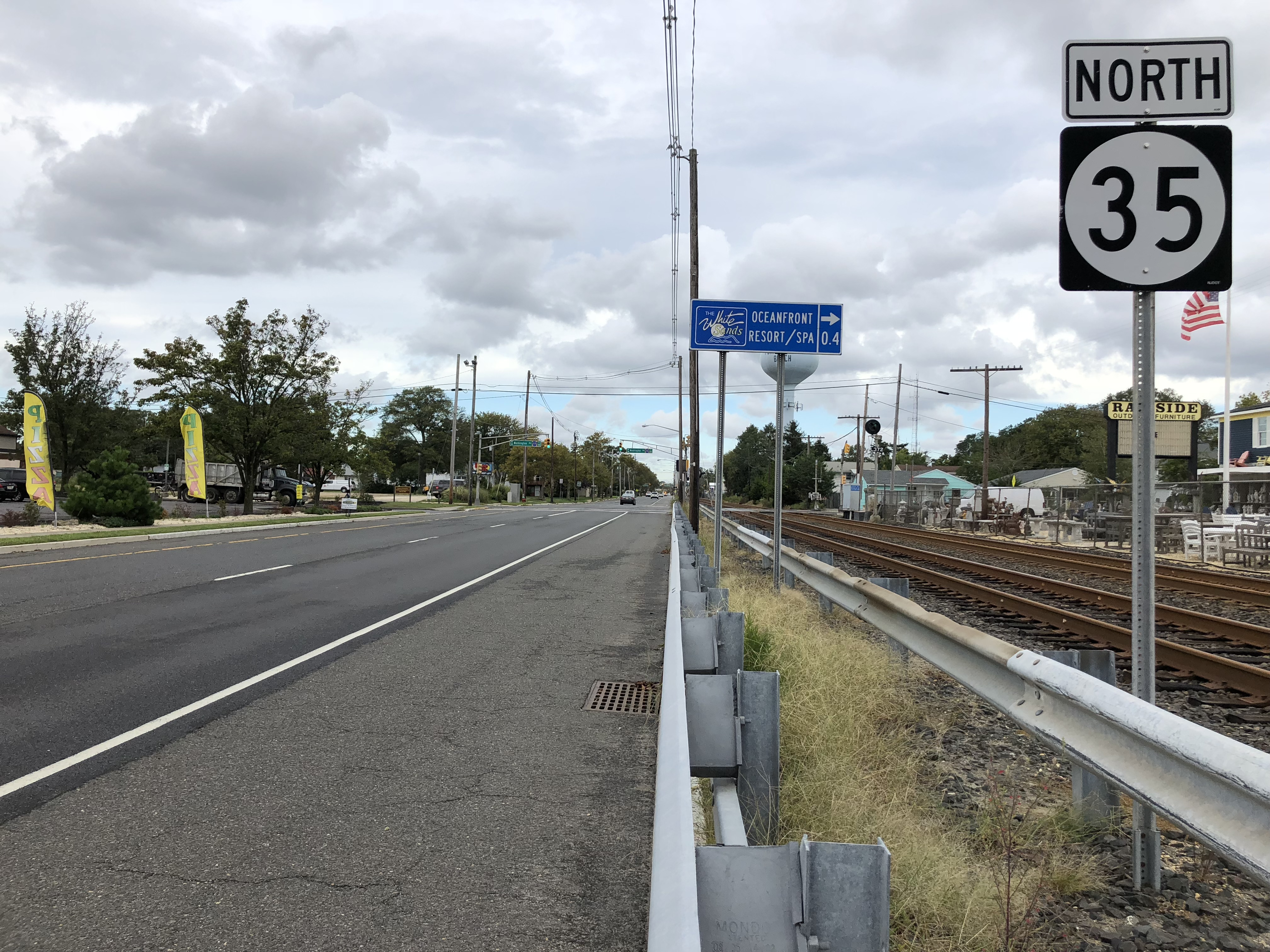 View north along New Jersey State Route 35 (Cincinatti Avenue) just north of Newark Avenue in Point Pleasant Beach, Ocean County, New Jersey